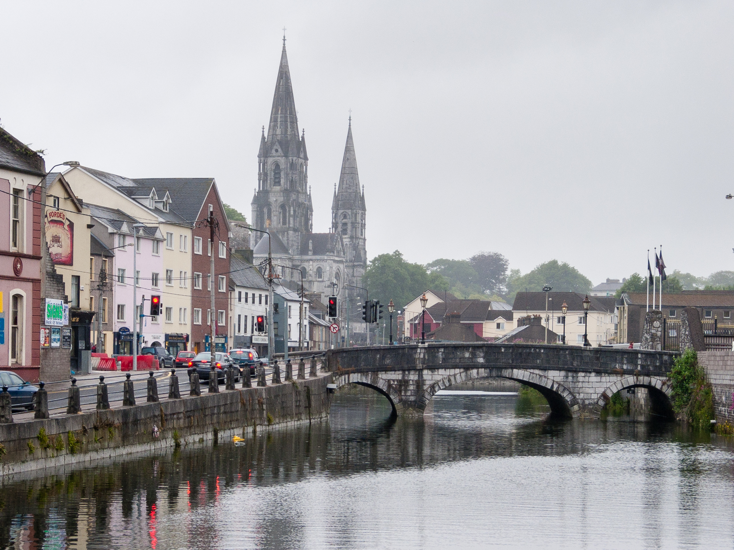 River Lee and St. Fin Bareer's Cathedral